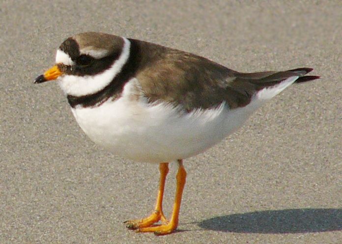 Ringed Plover